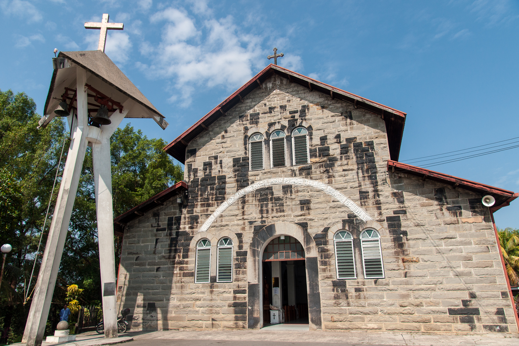 Penampang, Sabah: St. Michael Church Donggongon, View from East